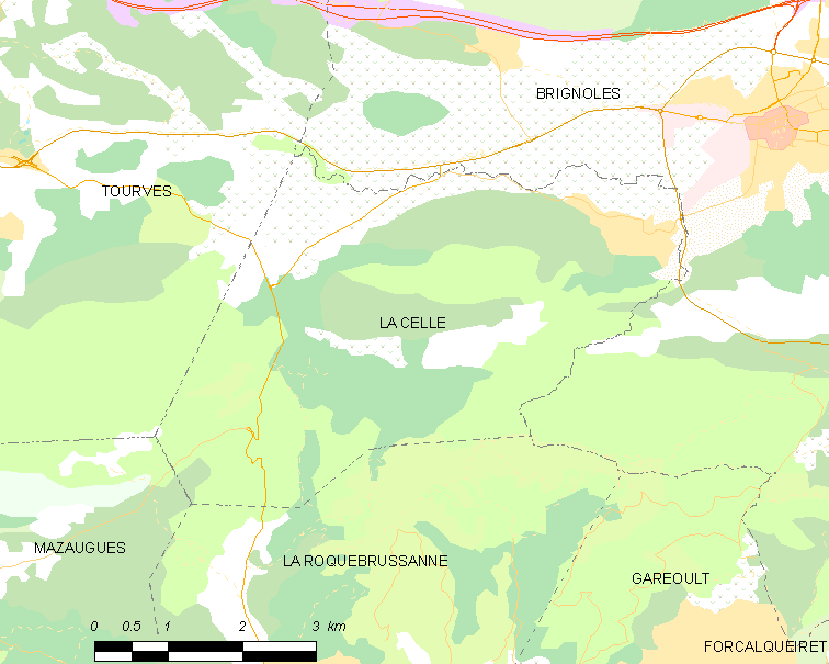 Map of French municipality La Celle